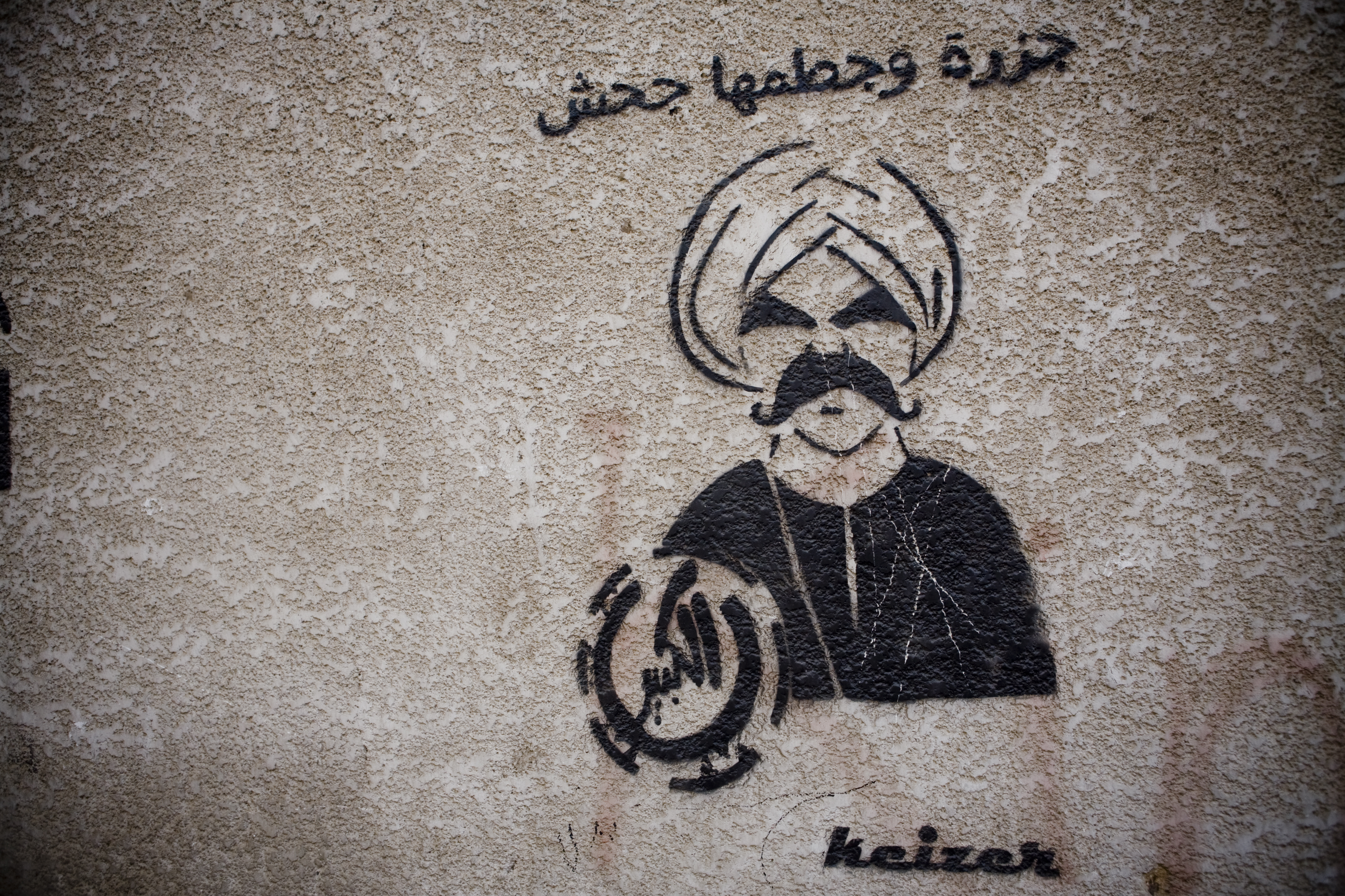 Revolutionary Graffiti at Saleh Selim Street, the island of Zamalek, Cairo.